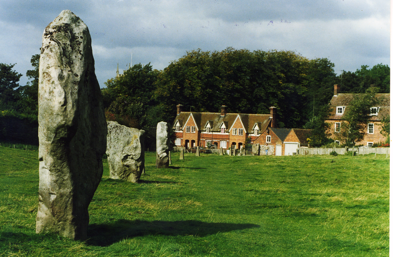 Avebury Rings, Wiltshire England